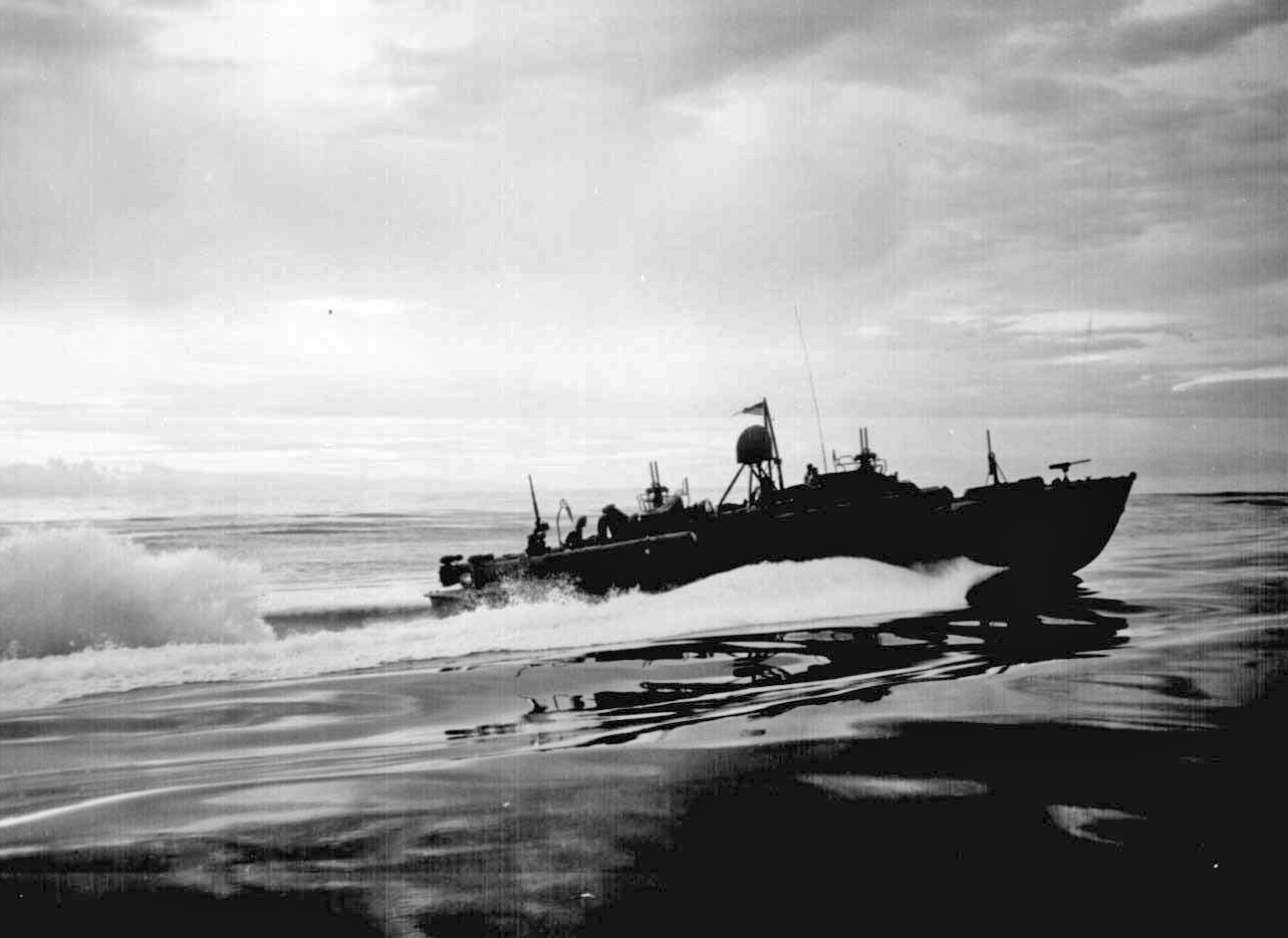 A PT boat patrolling off New Guinea, 1943